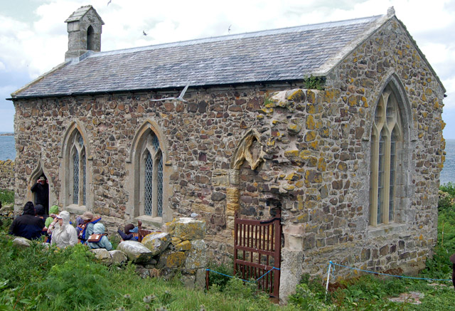 St Cuthbert's Chapel on Inner Farne, 3 km from Red Barns, Northumberland, Great Britain. This monastic chapel dates from the fourteenth century. It fell out of use after the dissolution of the monasteries under Henry VIII and by the end of the eighteenth century had become derelict. Much restoration was undertaken by Archdeacon Charles Thorpe in the mid nineteenth century and extensive repairs were carried out by the National Trust in 1929. The chapel houses a memorial to Grace Darling and also some fine wood carving.